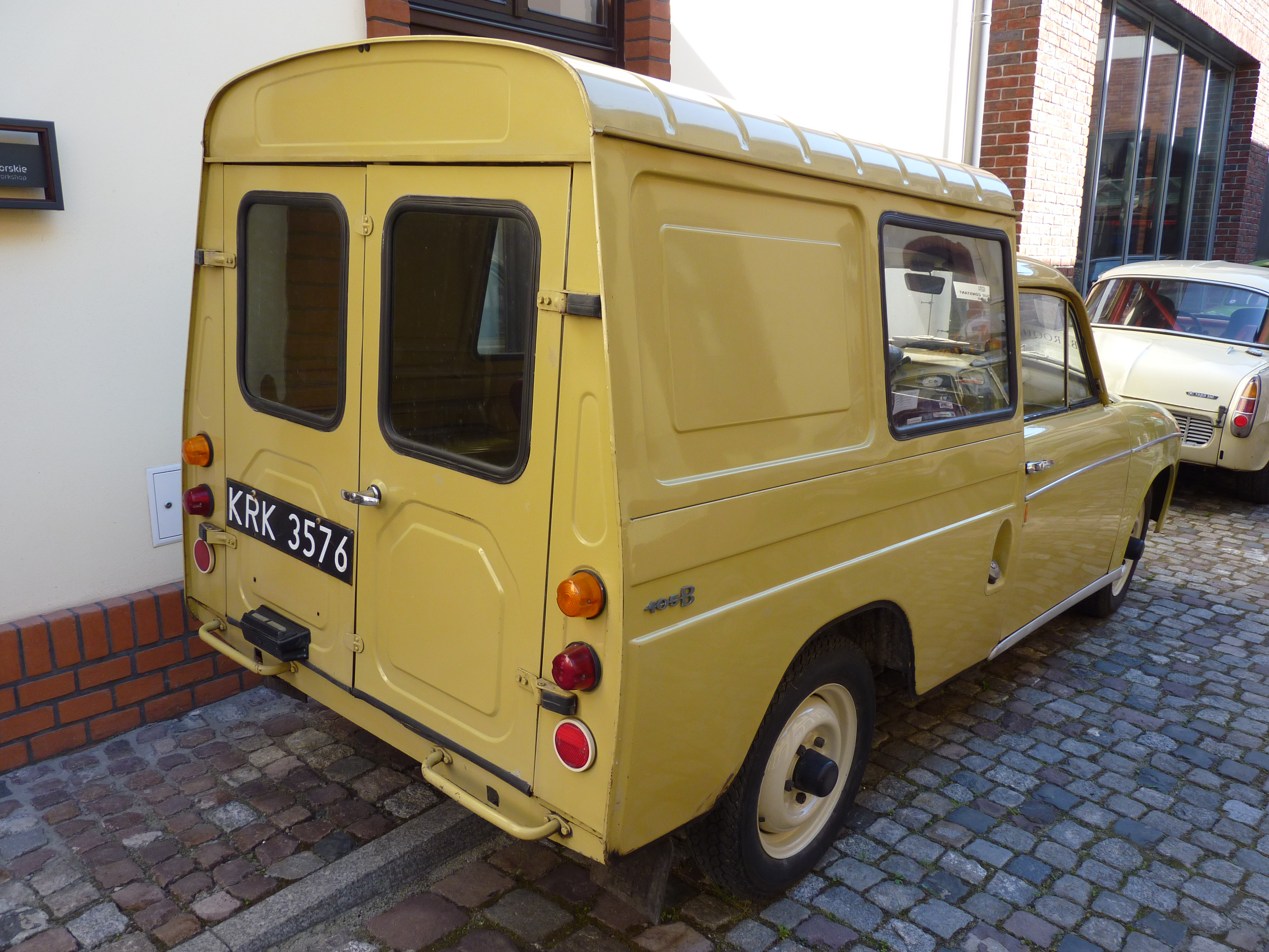 Classic Moto Show 2013